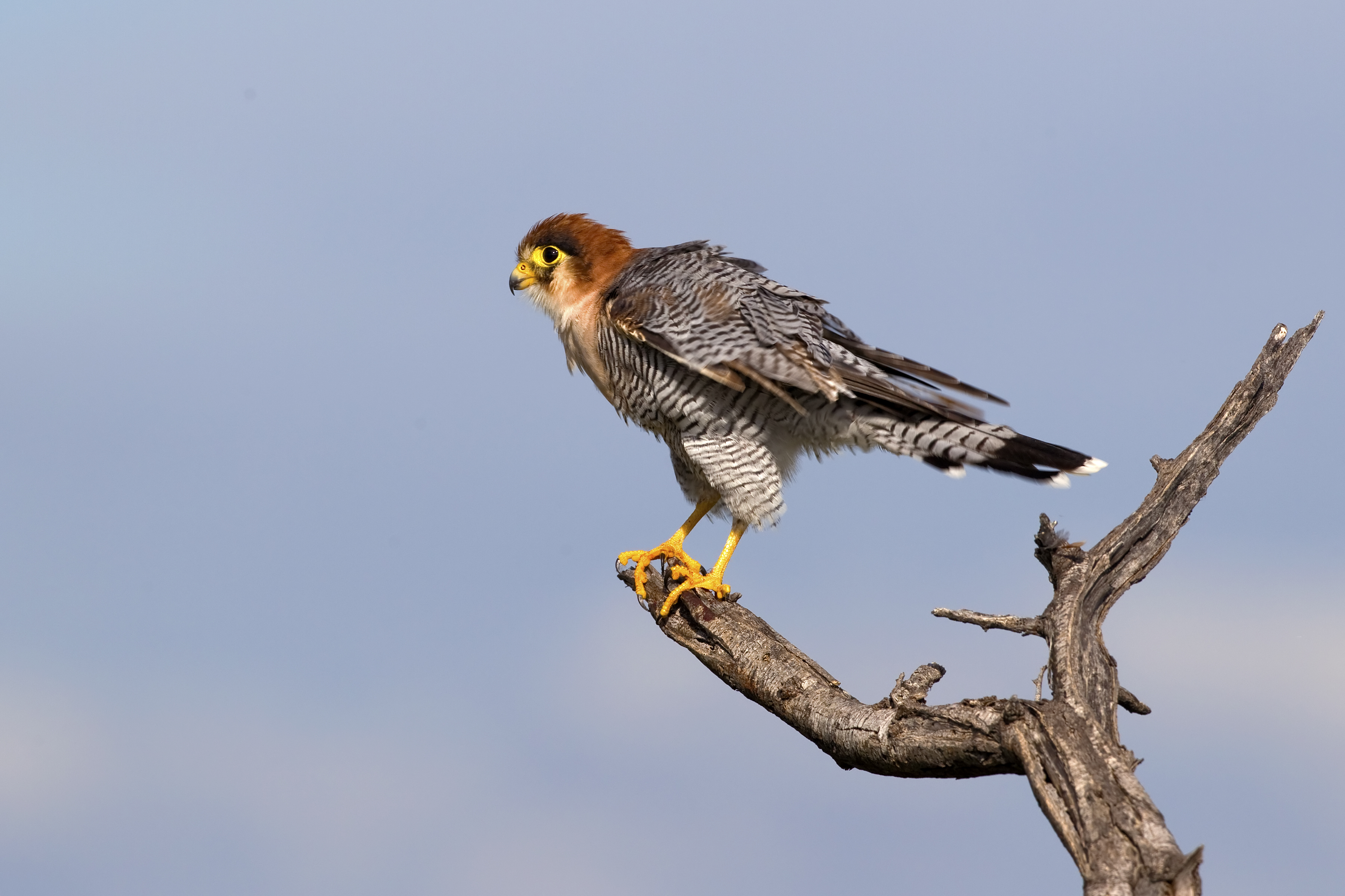 Red-necked falcon in Etosha National Park